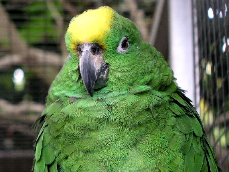 Yellow-crowned Amazon or Yellow-crowned Parrot (Amazona ochrocephala) in captivity in the Parrot's Garden (Jardim dos Louros), in the Botanical Garden of Funchal, Madeira island, Portugal.